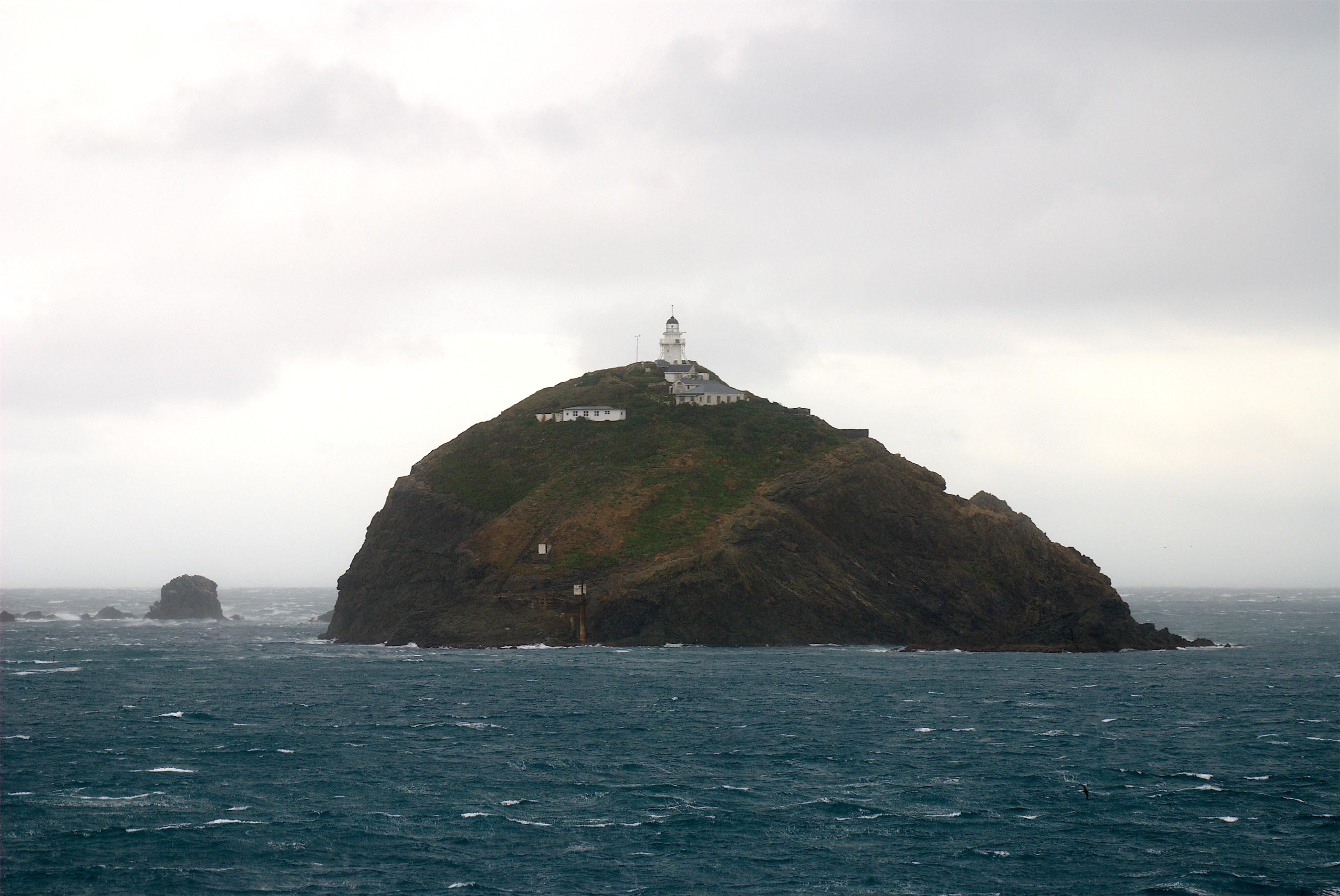 The largest of the Brothers Islands, with the lighthouse and associated outbuildings, in New Zealand